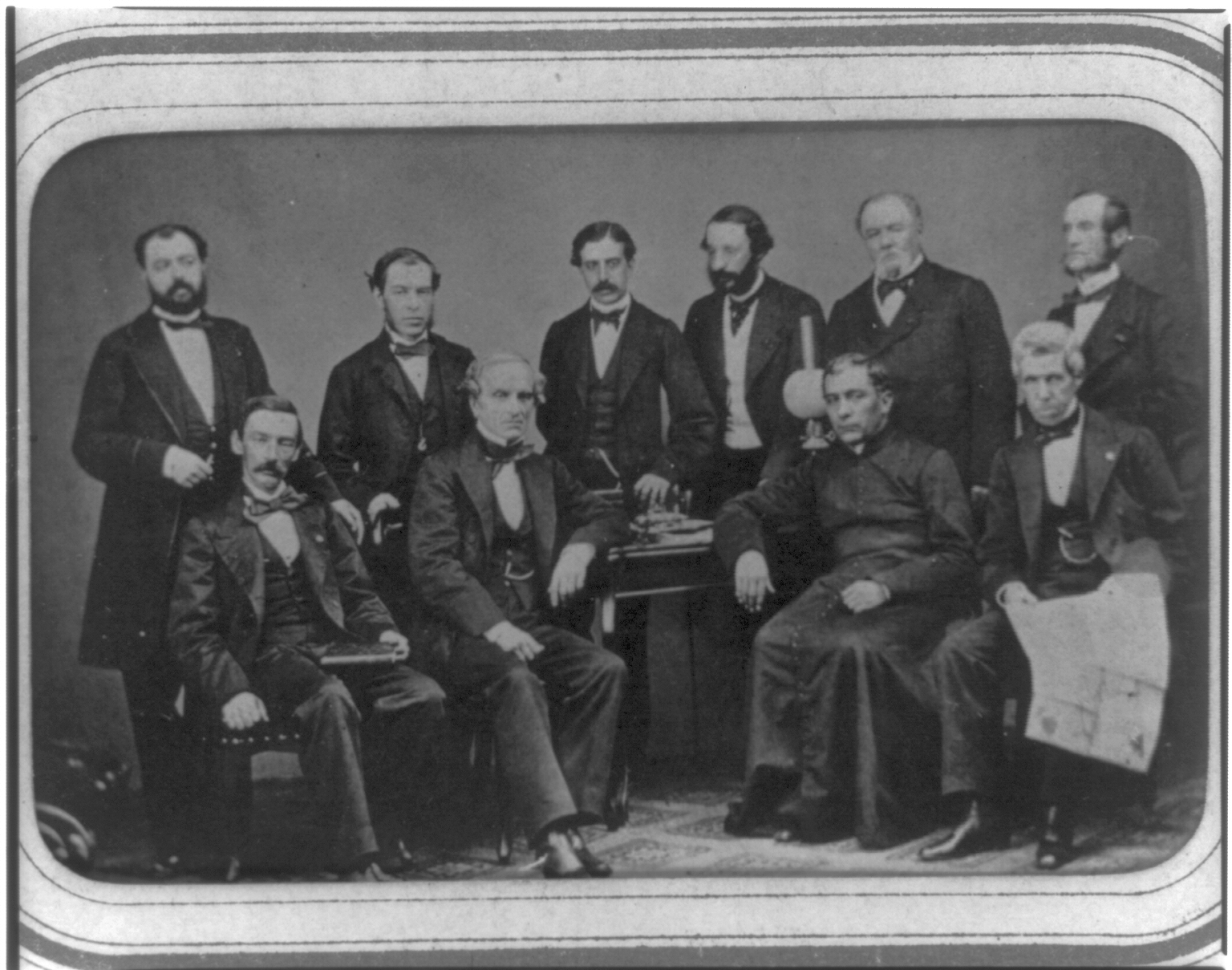 Mexican commission in Miramar